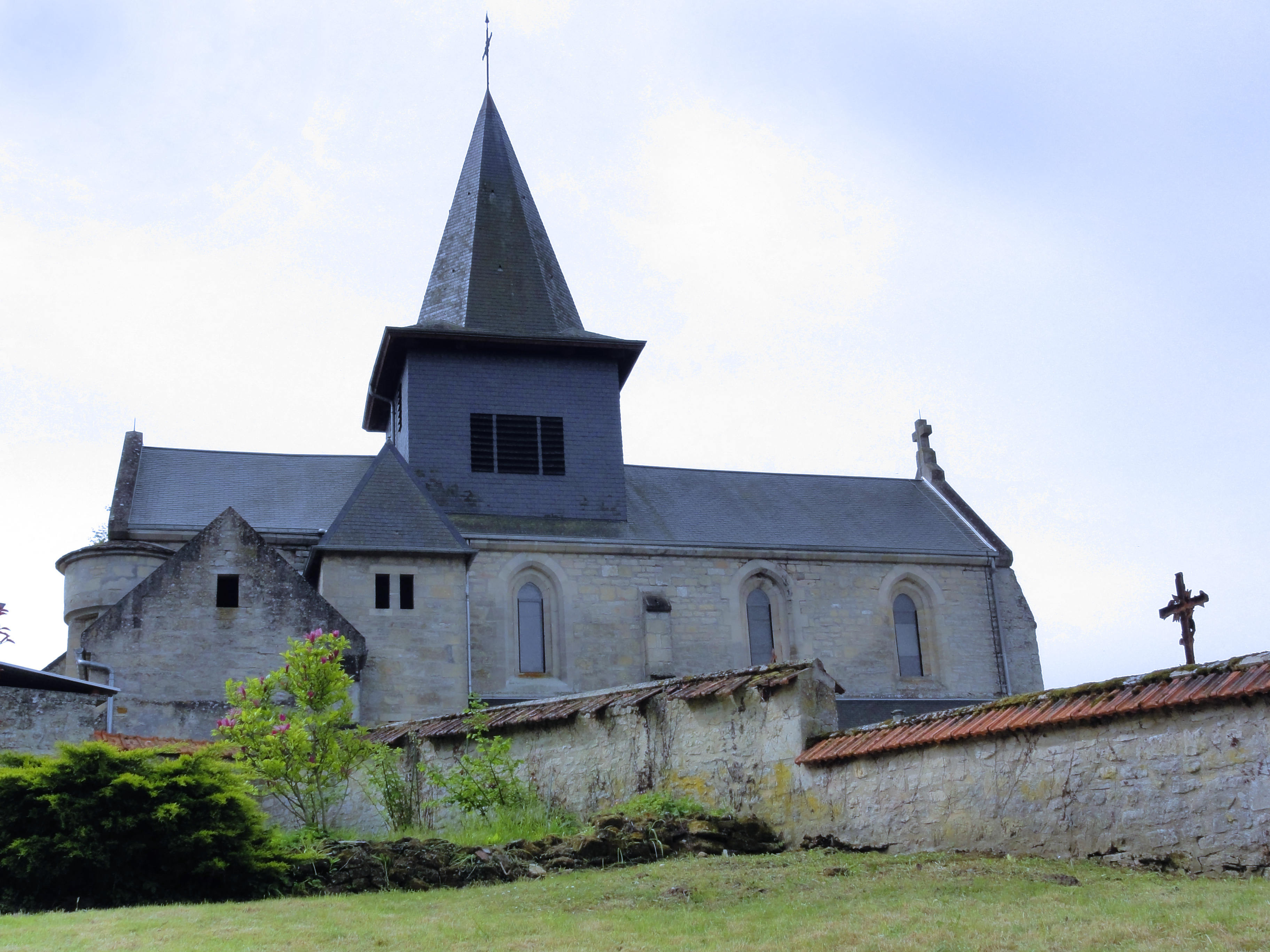 Bièvres (Aisne) église Saint-Pierre